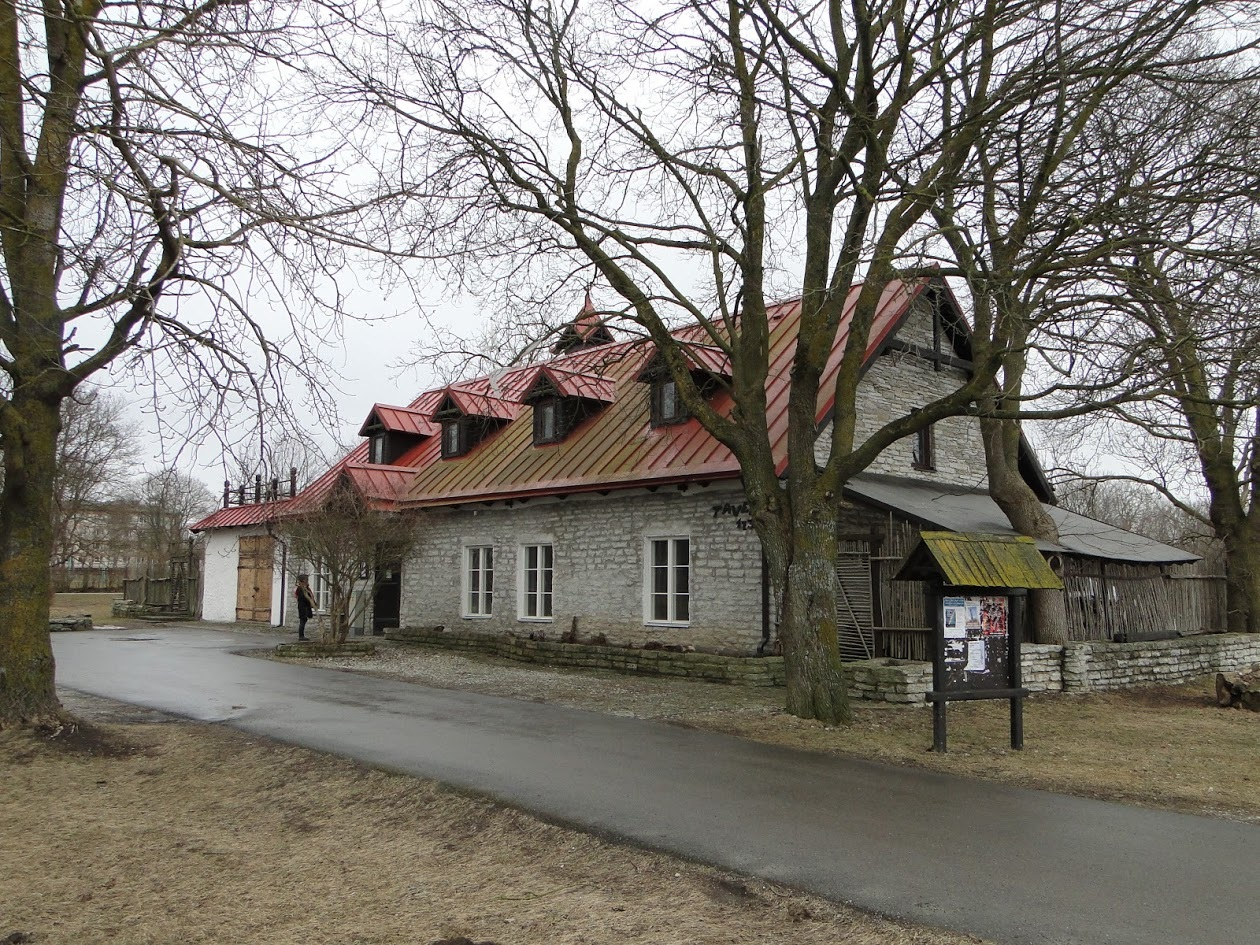 Бывшая Петровская таможня (ныне кафе)